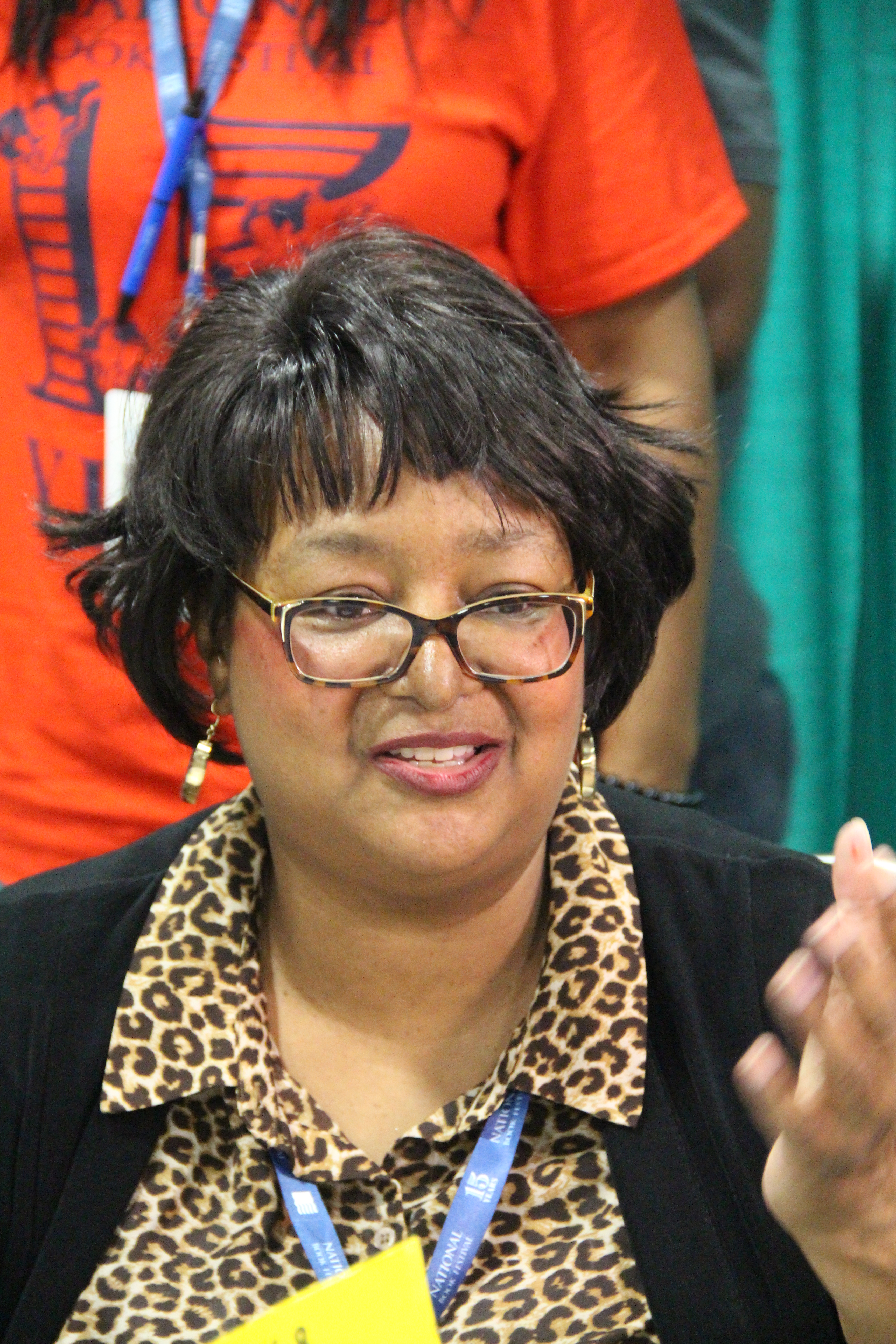 2015 Library of Congress National Book Festival September 5, 2015 Washington, DC